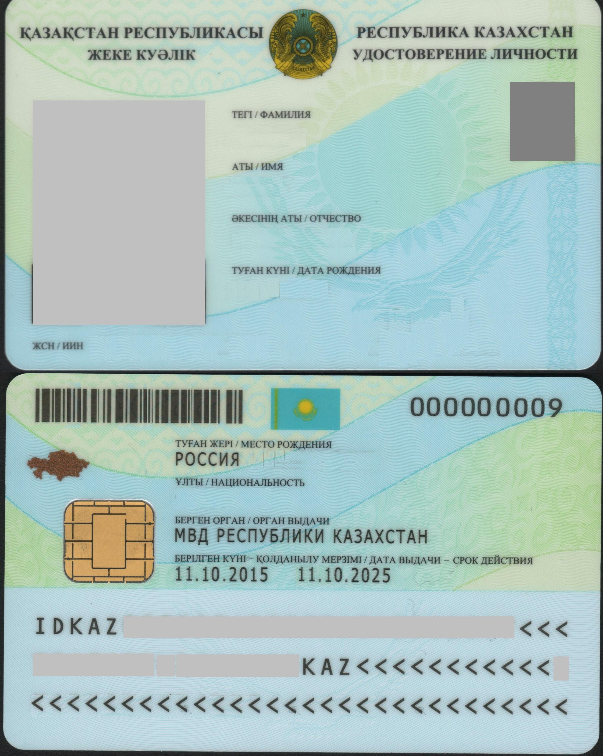 Kazakhstani ID-card. The personal data are deleted